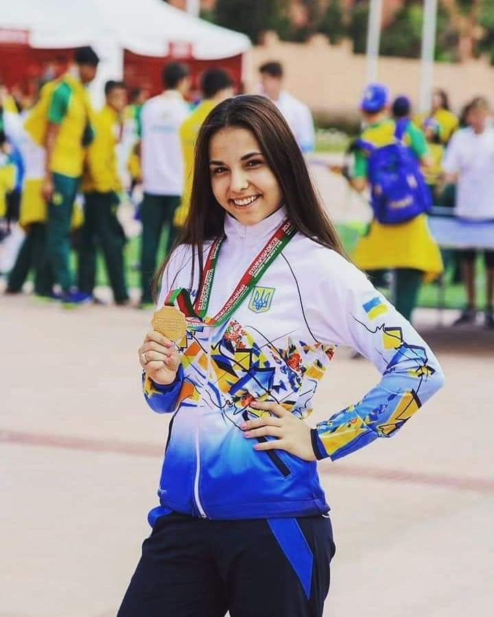 Лакийчук Кристина боксер любитель